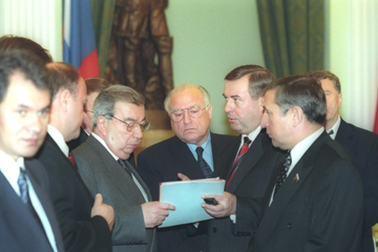 President Vladimir Putin with leaders of the State Duma Factions. Nikolay Kharitonov (right)